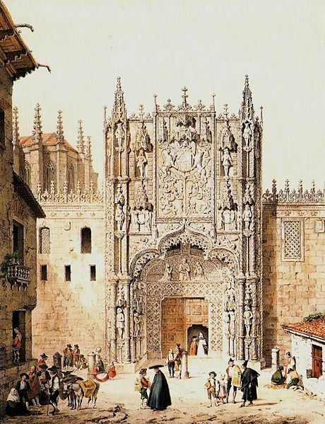 Colegio de San Gregorio (Valladolid)